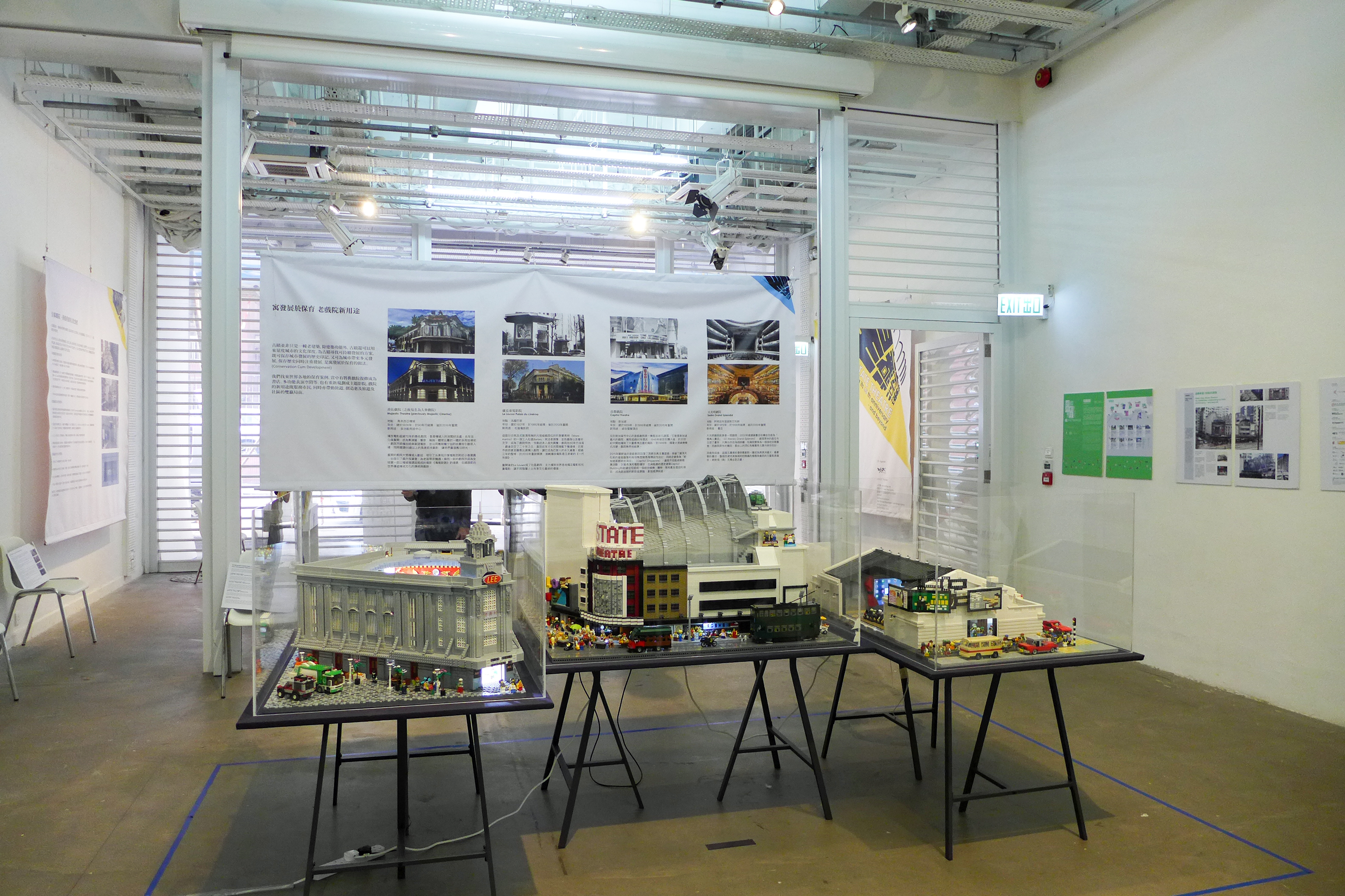 Connecting Space Hong Kong